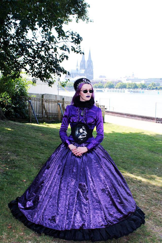 This photo has been taken in the country: Germany